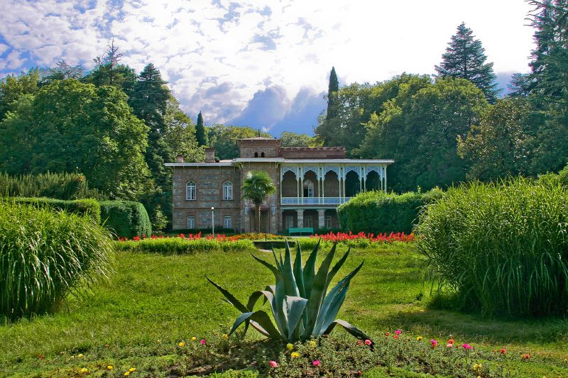 Tsinandali Palace. The house-Museum of Chavchavadze family